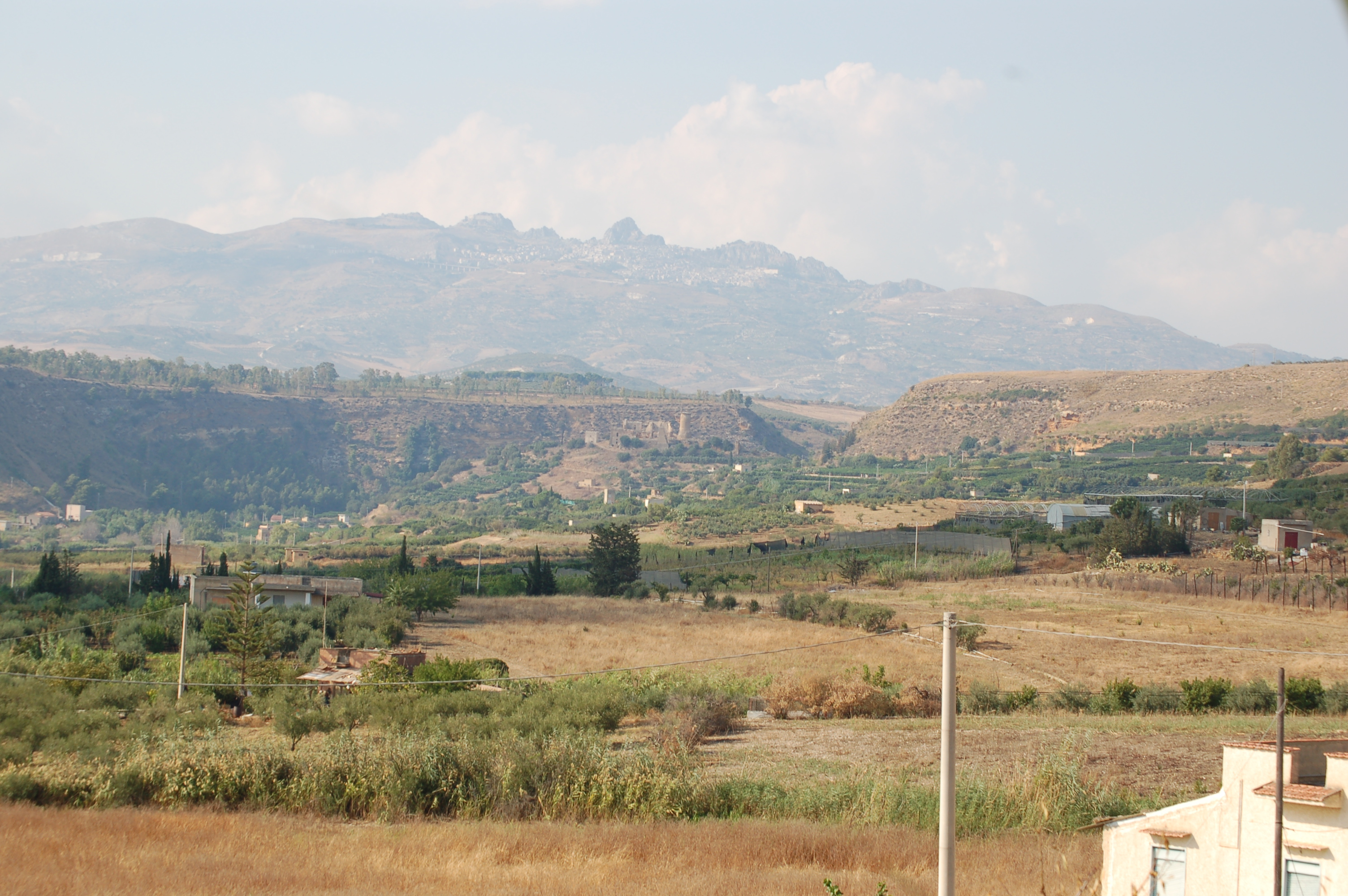 The Gole lupo (gorges of the wolf) are a natural canyon in the territory of Ribera, an Italian town in the province of Agrigento in Sicily.